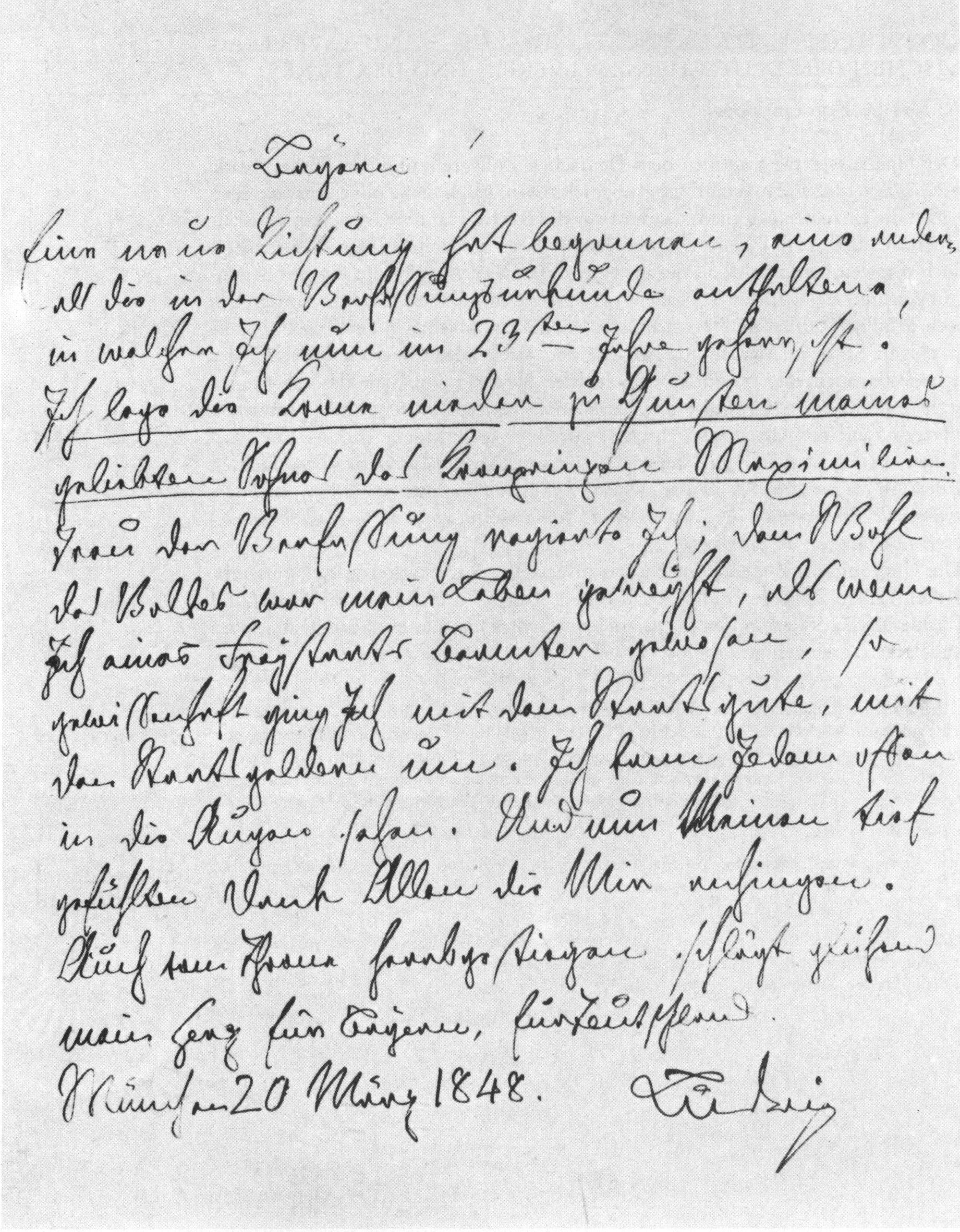 The abdication of king Ludwig I of Bavaria. Autograph draft of his statement Königliche Worte an die Bayern, March 20th, 1848. München, Bayerisches Hauptstaatsarchiv, Staatsrat 1719.